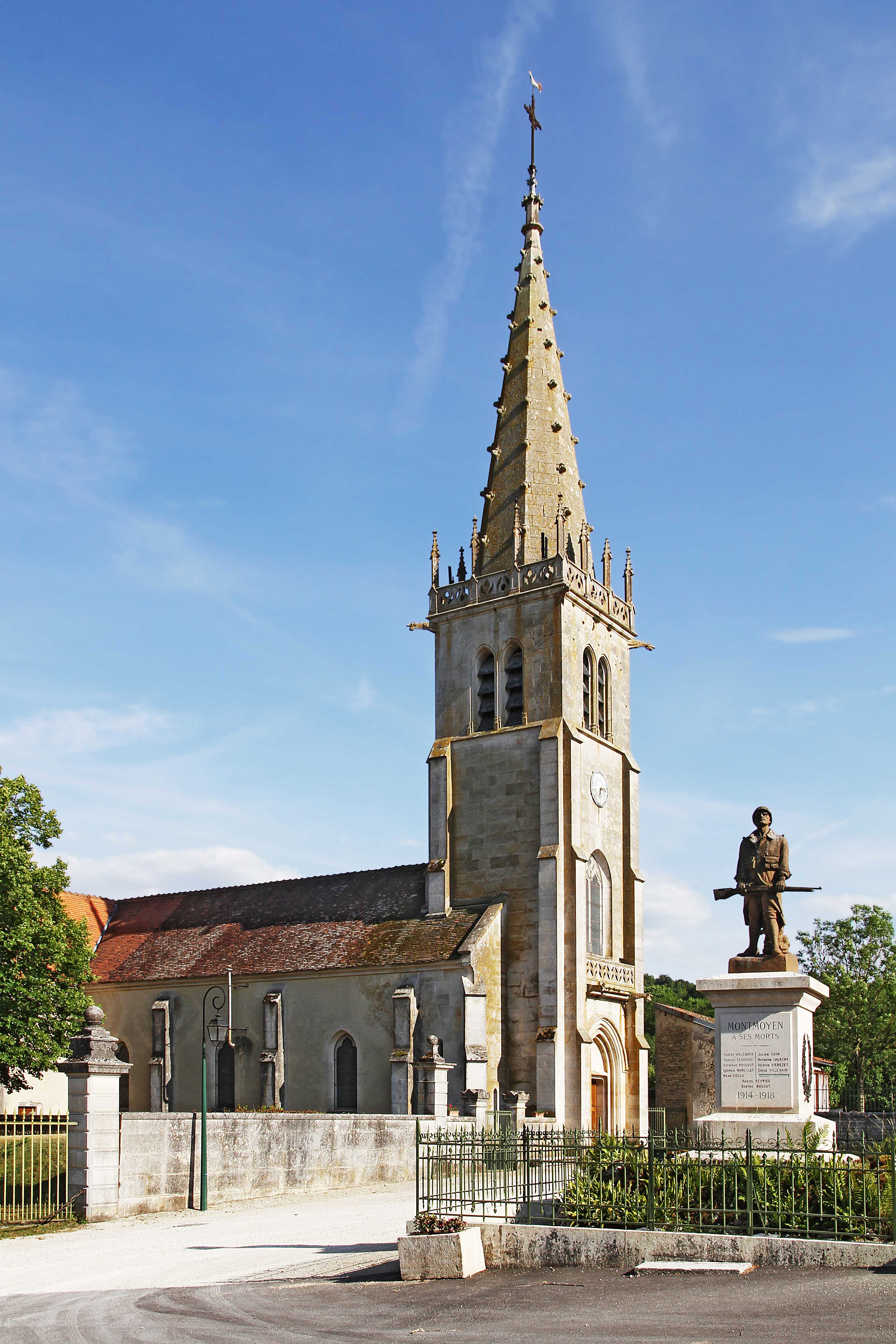 War memorial and church of Montmoyen